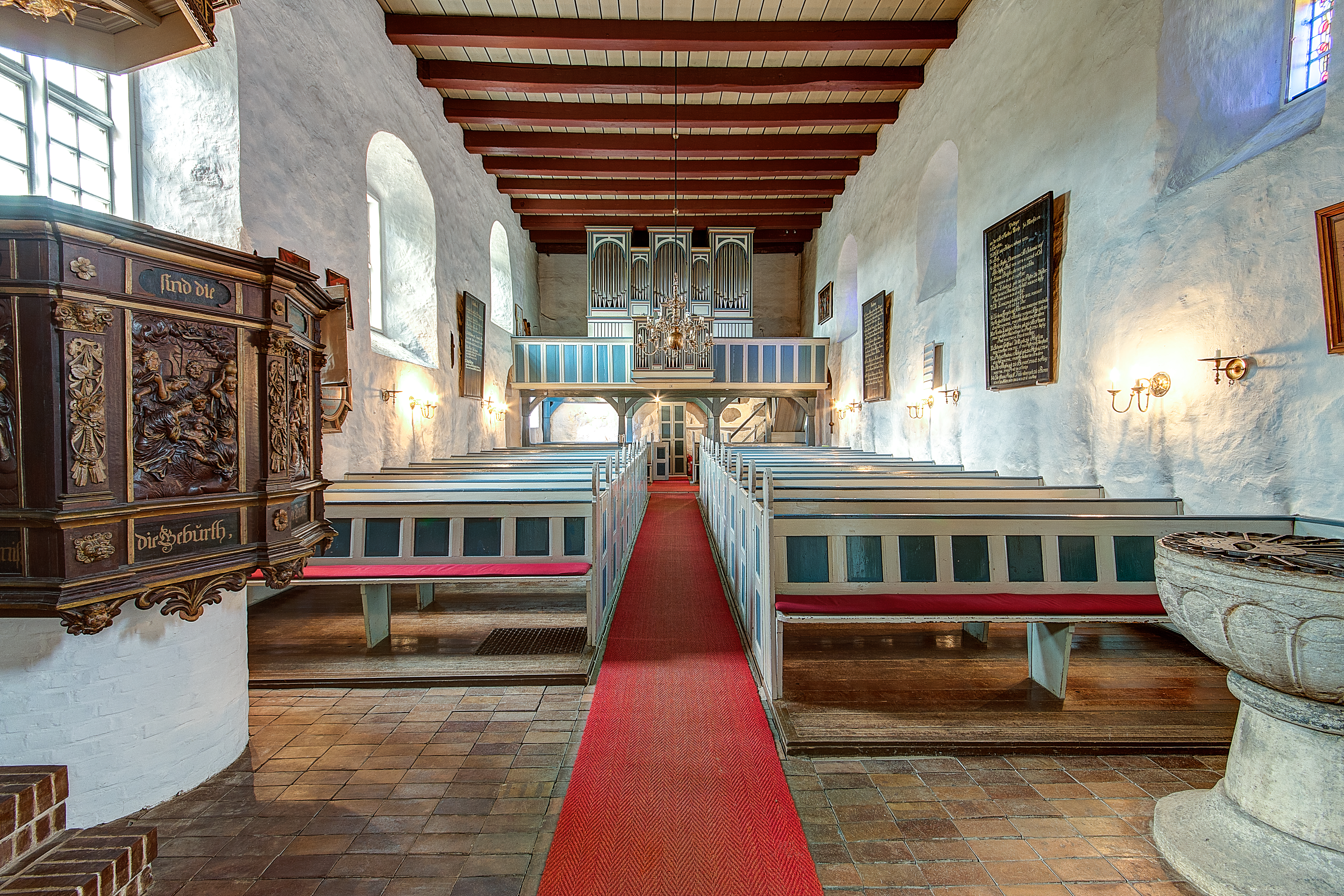 Morsum (Sylt), Slesvic-Holstein (Germany): church, interior, photo 2015